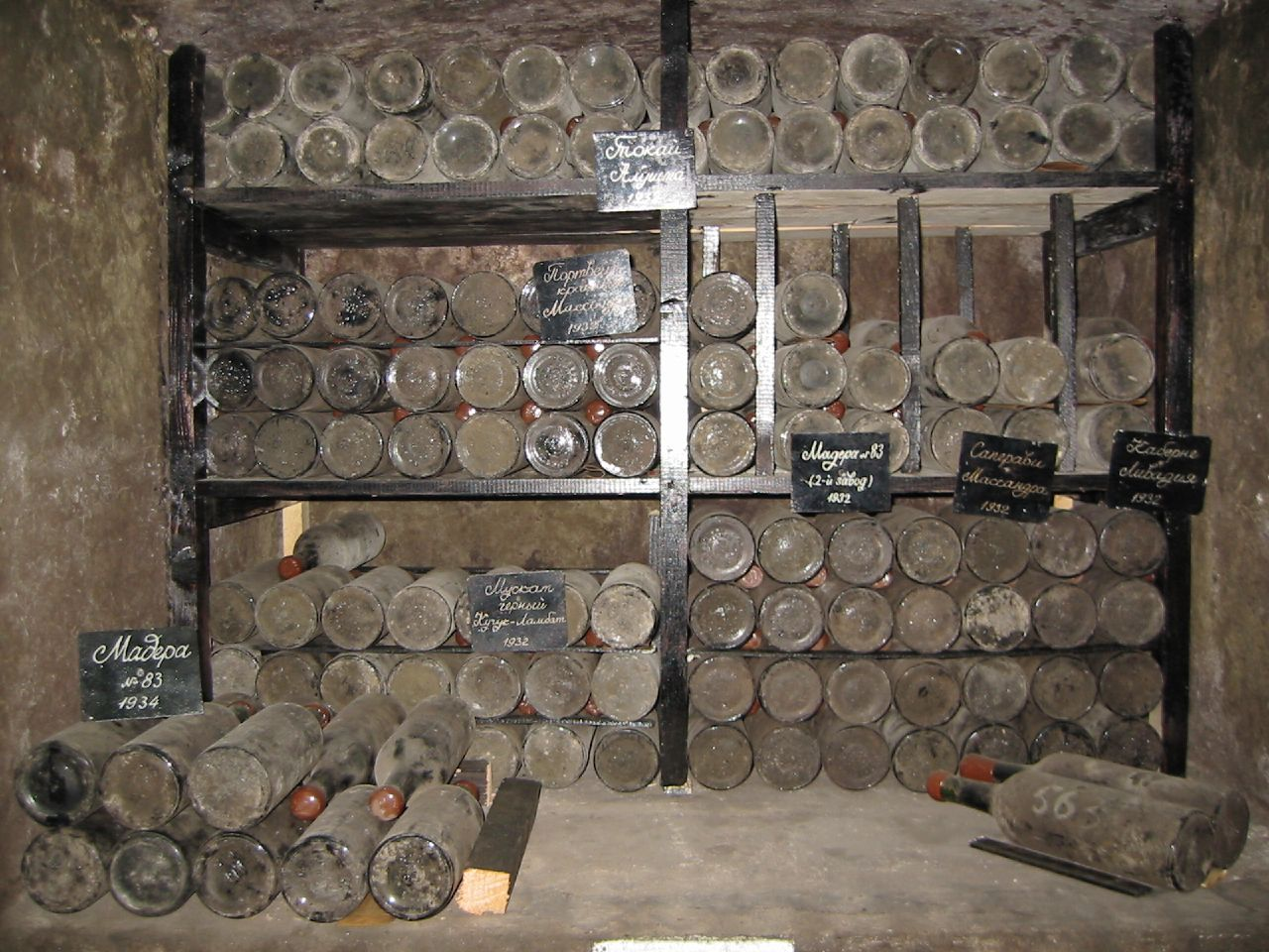 The Massandra cellars in the Crimea were the first to be built in tunnels underground to maintain a constant temperature of around 12 - 13 degrees C.